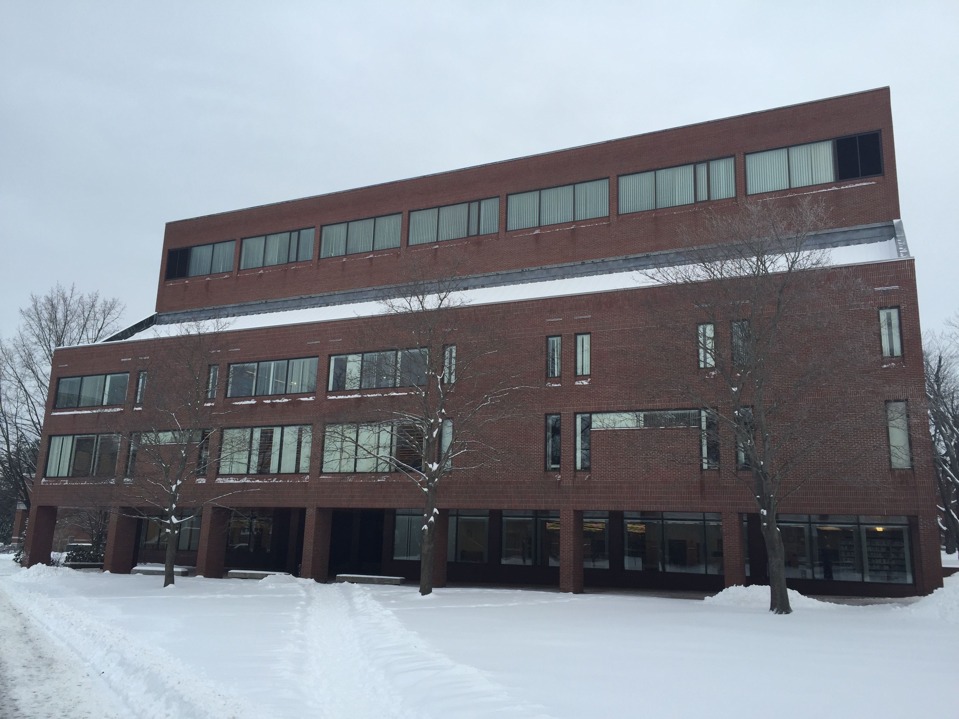 George and Helen Ladd Library of Bates College